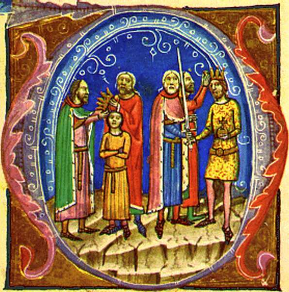 King Béla I of Hungary is crowned. On the left side the child is his nephew Solomon who was supposed to receive the crown.